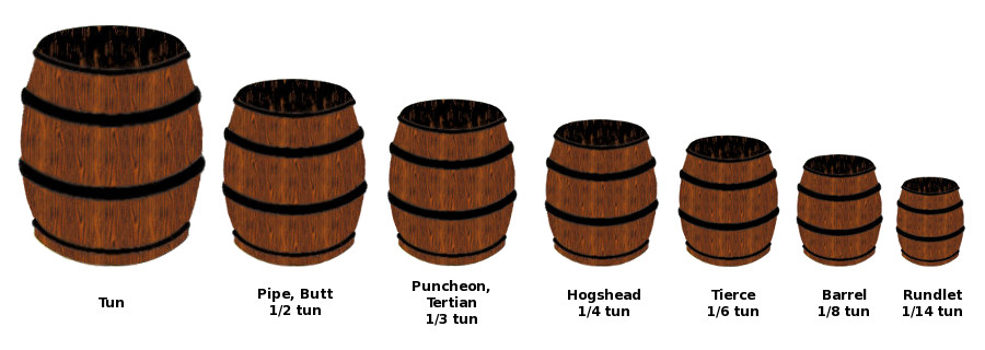 Relative sizes of English wine cask units, prior to 1824. The tun=252 gallons; pipe=126 gallons; tercian=84 gallons; hogshead=63 gallons; tierce=42 gallons; barrel=31.5 gallons; rundlet=18 gallons.